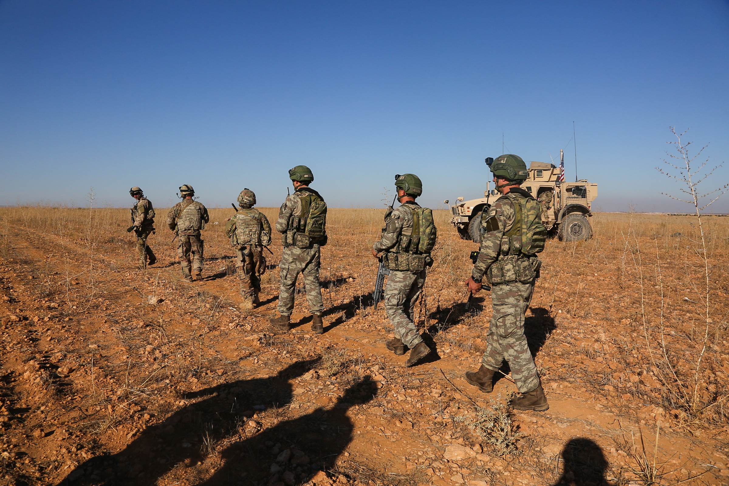 U.S. and Turkish soldiers conduct the first-ever combined joint patrol on Nov. 1, 2018, outside Manbij, Syria